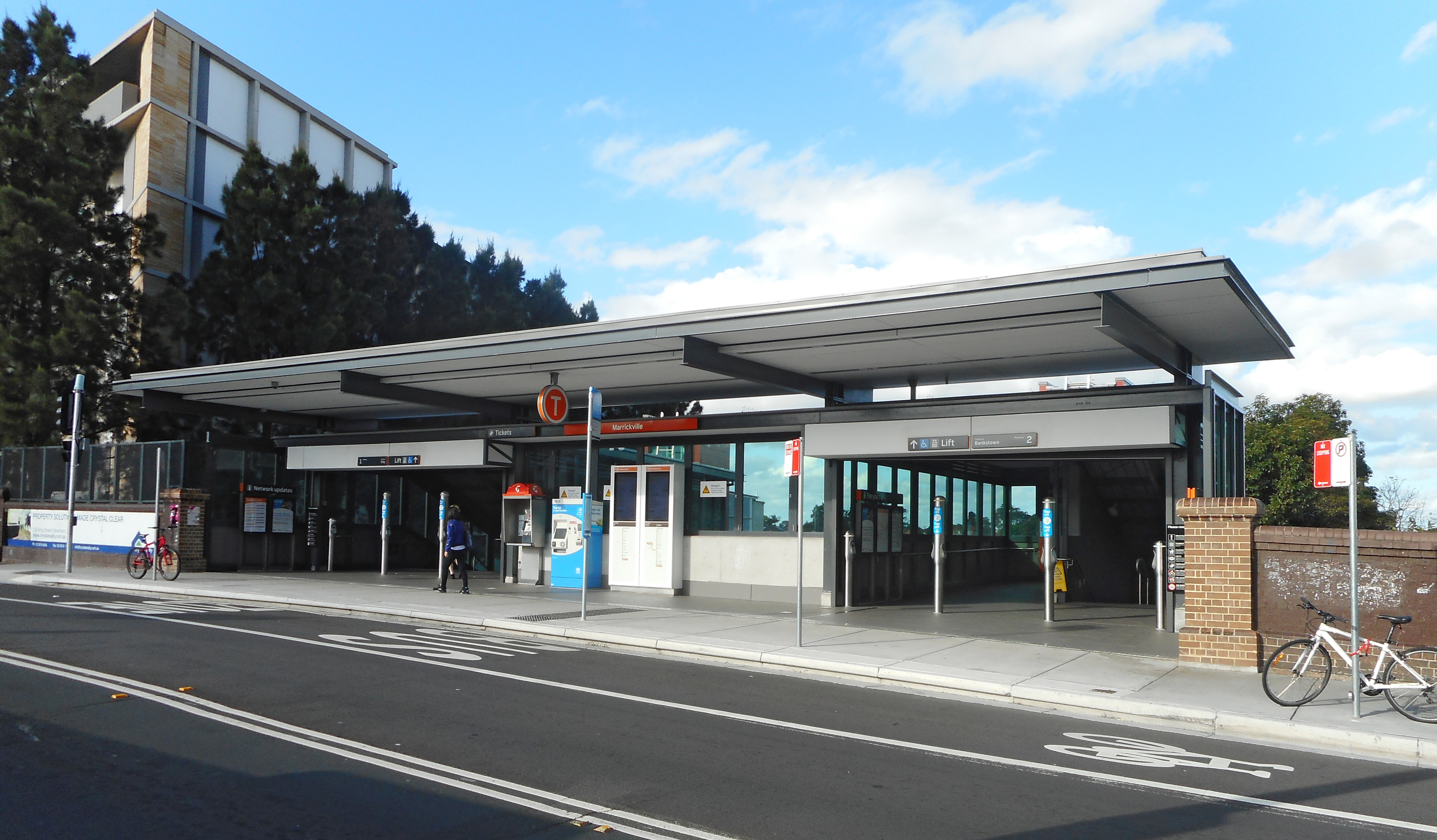 The rebuilt main entrance of Marrickville station in 2017.